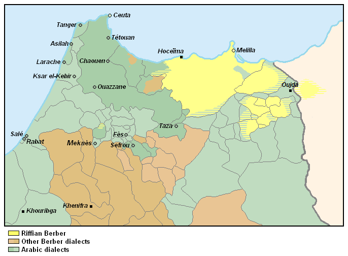 Own made map - Map of Riffian-speaking areas in northern Morocco, derived from File:Riffian Dialects in Morocco.PNG (simplified)